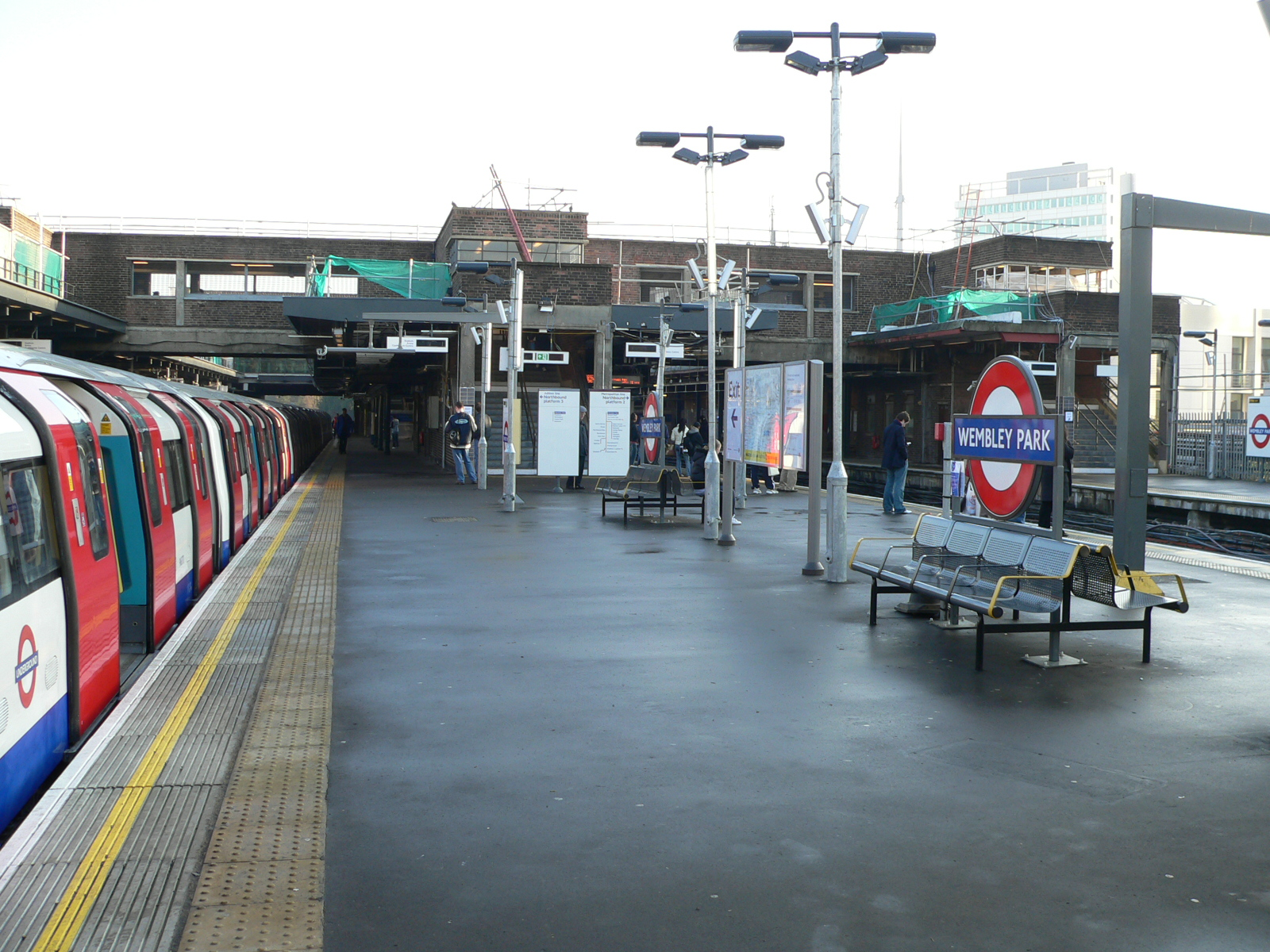 Looking south from the northern end of the northbound platforms at Wembley Park tube station. The train on the left is a Jubillee Line 1996 tube stock EMU.